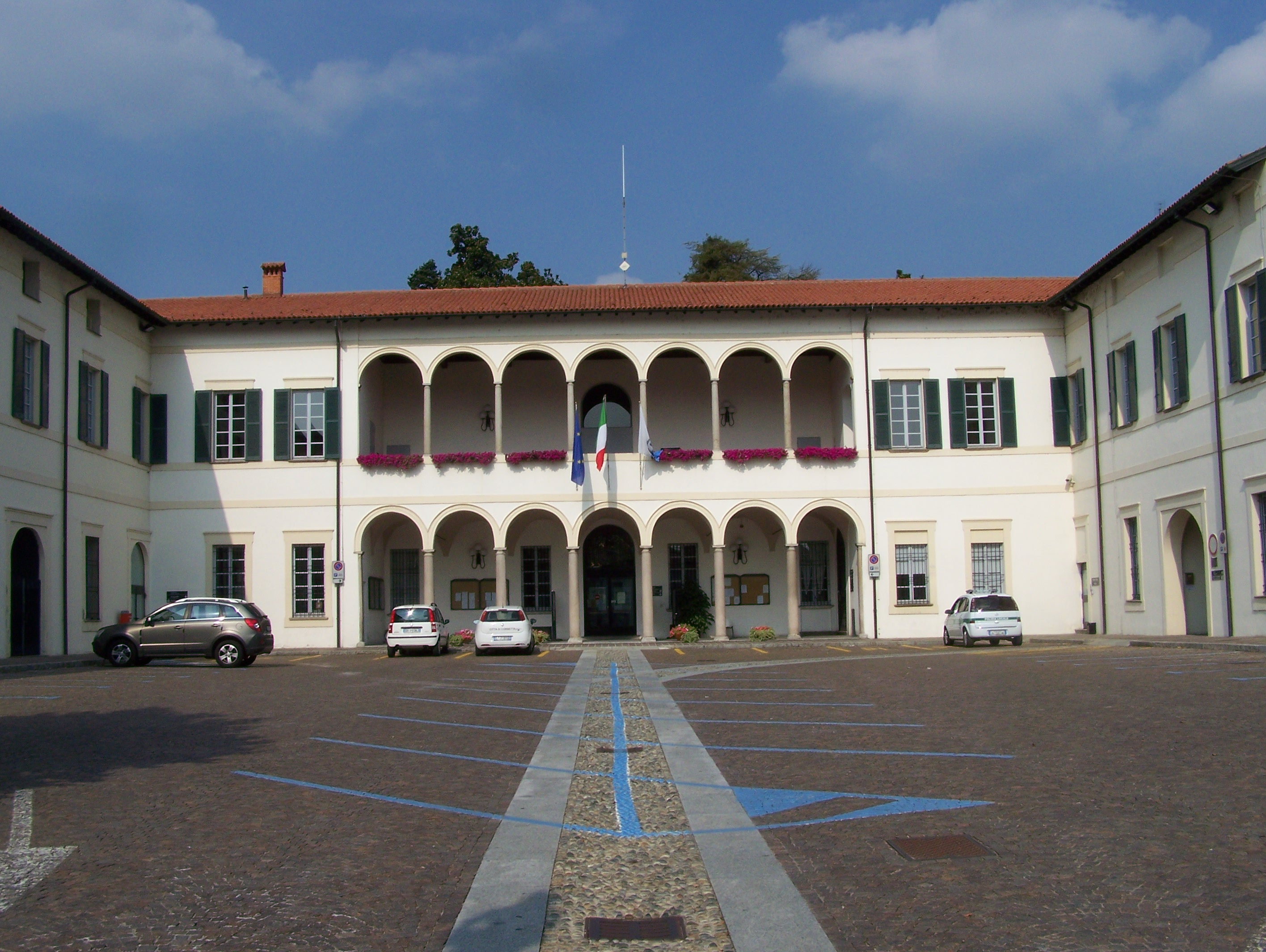 Villa Frisiani-Olivares-Ferrario in Corbetta (MI) - Italy